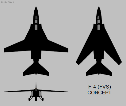 Plan-view silhouettes of variable geometry Phantom proposal